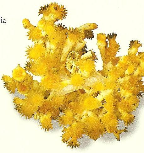 koral